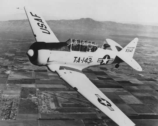 North American advanced AT-6 Texan advanced trainer. Over 10,000 built, starting in 1940. This is a T-6G, procured during the Korean War as a forward air control (FAC) spotter.